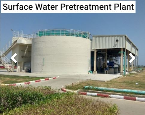 Dual Media Filtration System (DMF)